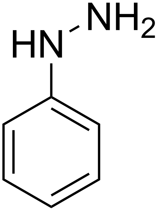 chemical structure of phenylhydrazine